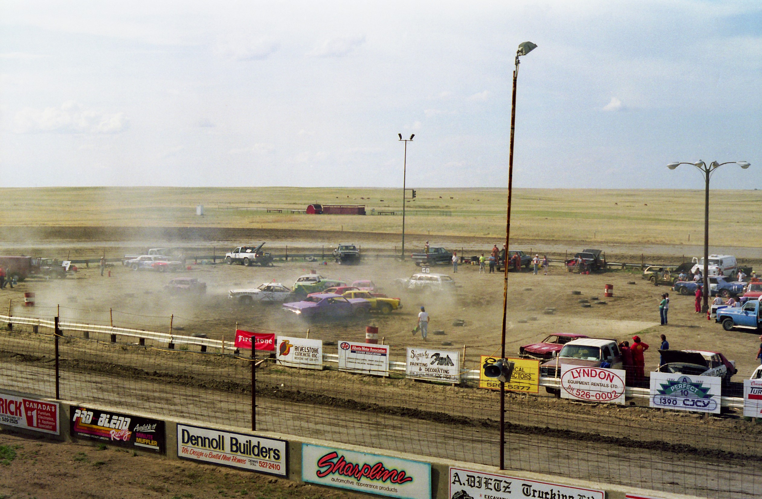 Racing at the Medicine Hat Speedway Derby, Alberta, Canada